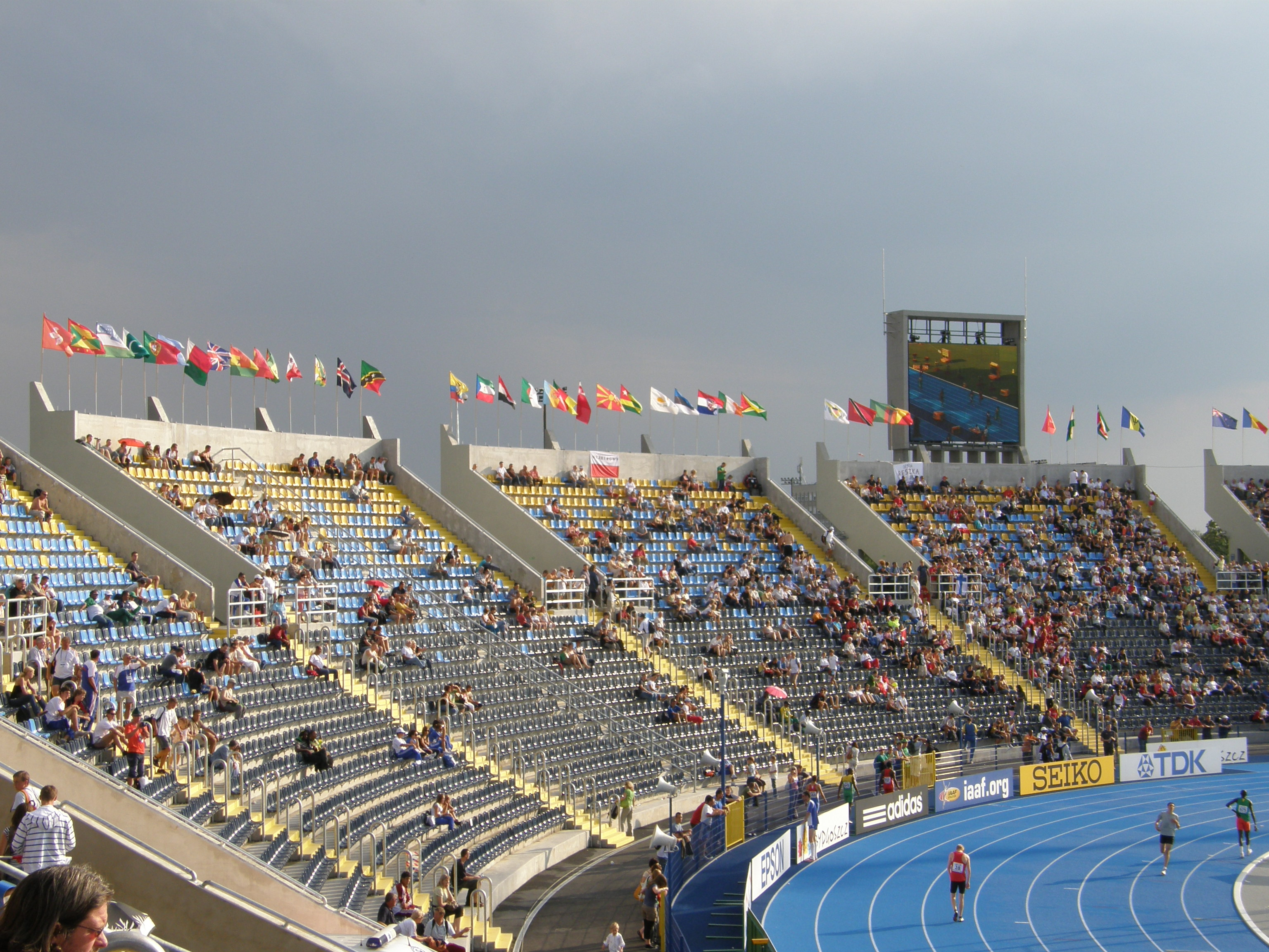 IAAF World Junior Championship - Bydgoszcz Poland